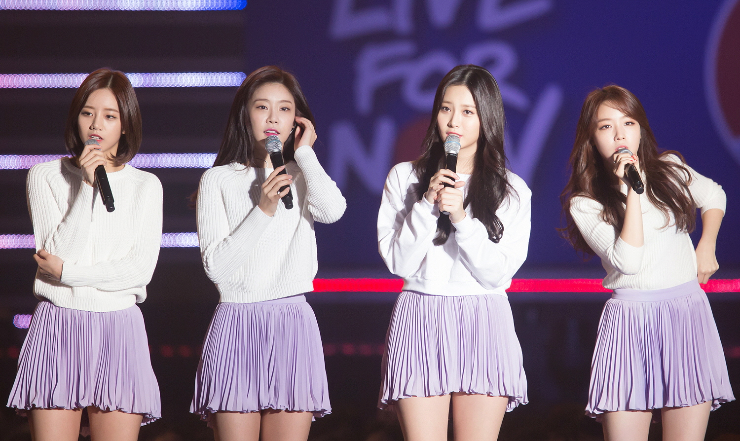 14.11.16 펩시콘서트 걸스데이